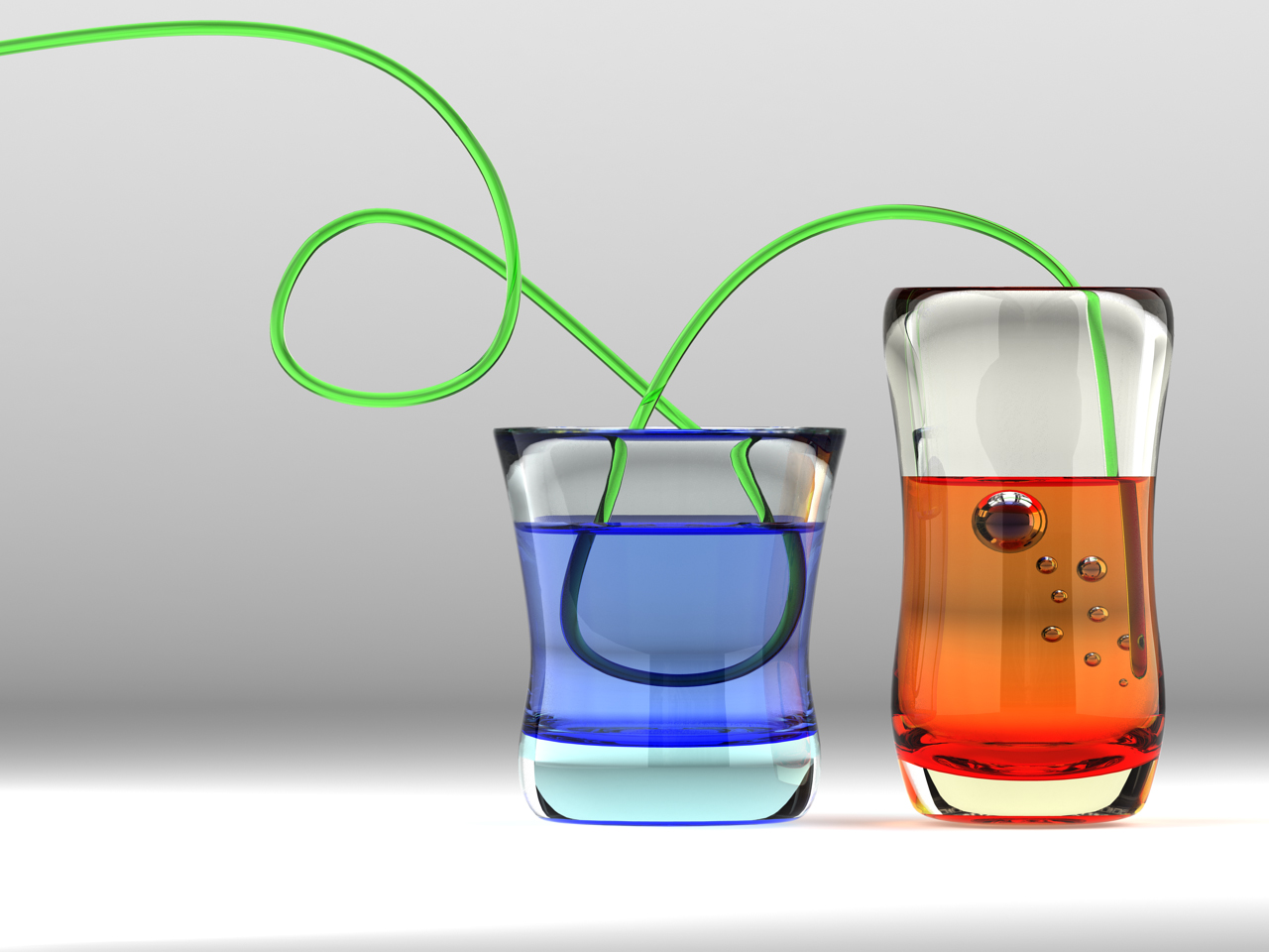 Three different Dielectric interfaces, demonstrating the use of dielectric shaders.